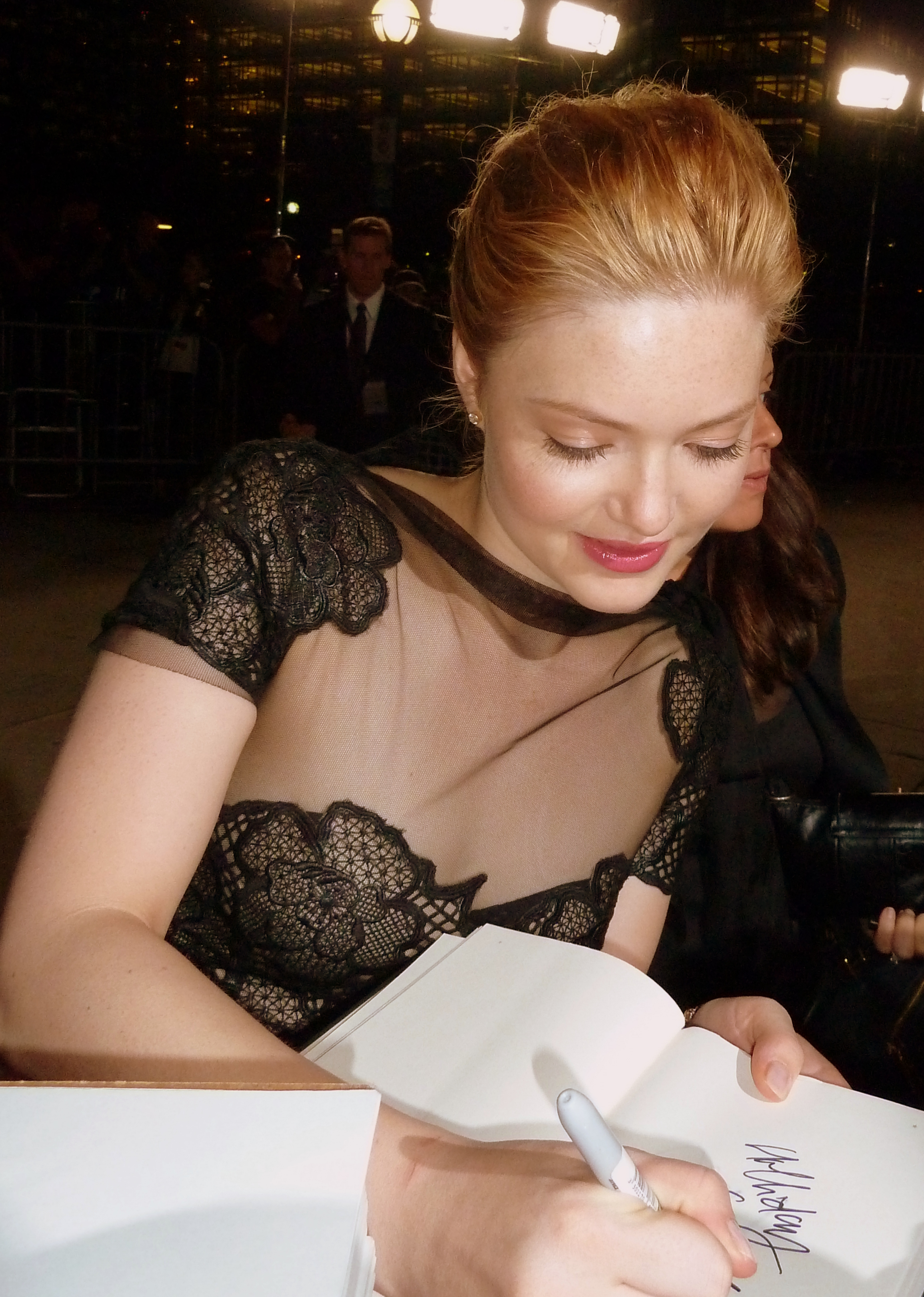 Holliday Grainger at the premiere of Great Expectations, Toronto Film Festival 2012